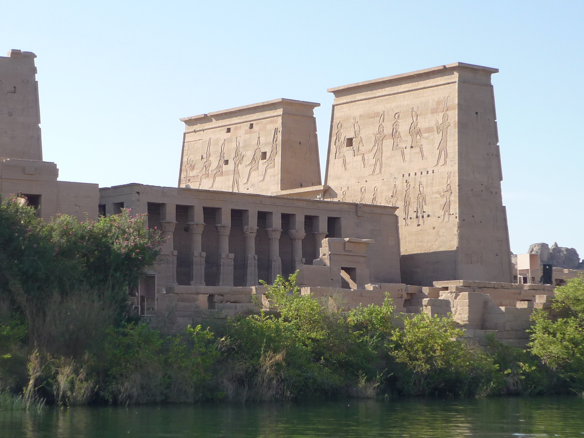 Isis temple from lake, Philae Island, Egypt